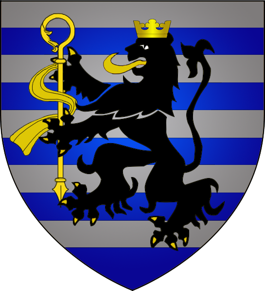 Coat of arms of the municipality of Kehlen, Luxembourg